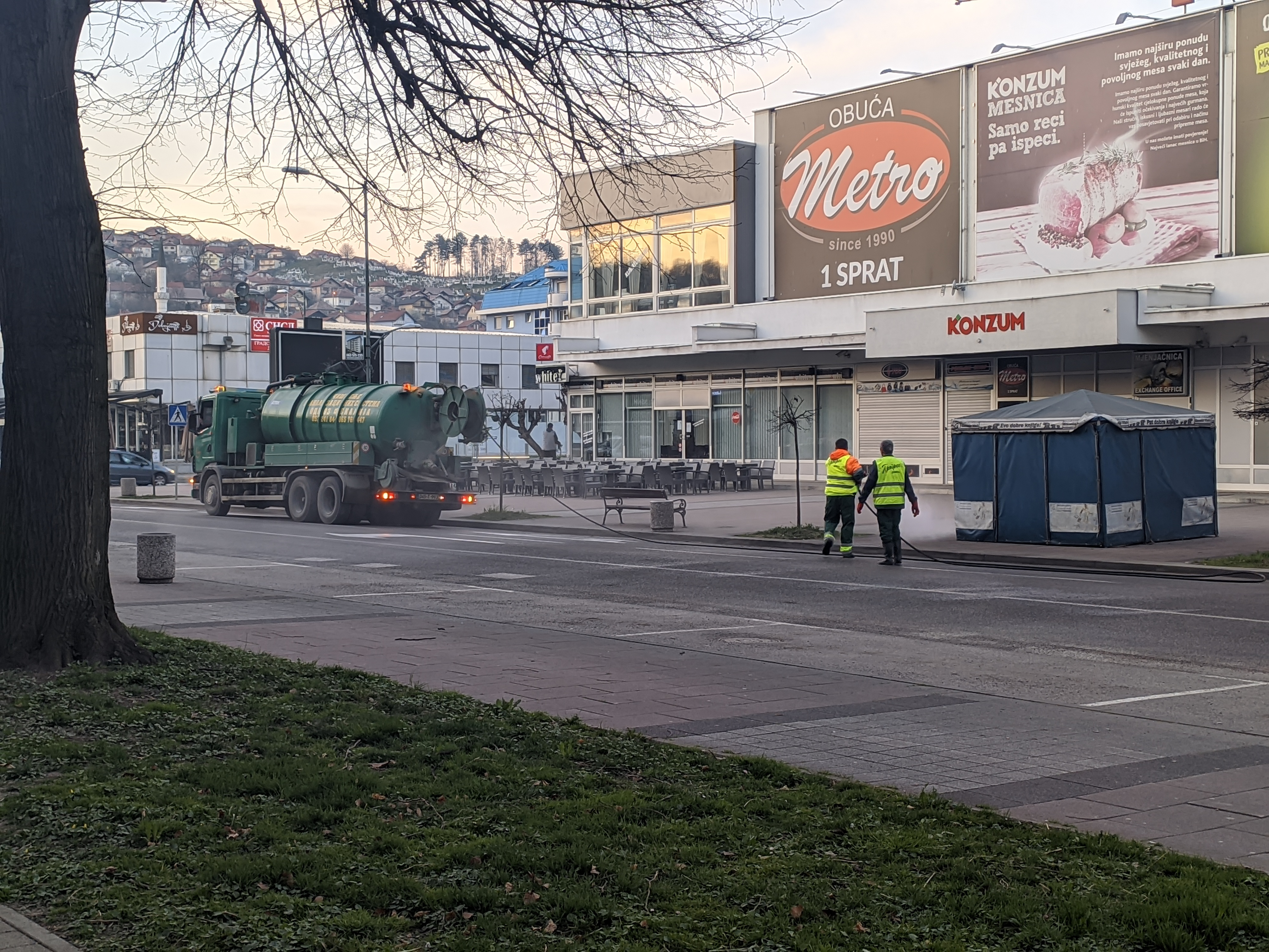 Communal truck spraying over streets and sidewalks to prevent coronavirus spreading in the city of Doboj, Bosnia and Herzegovina